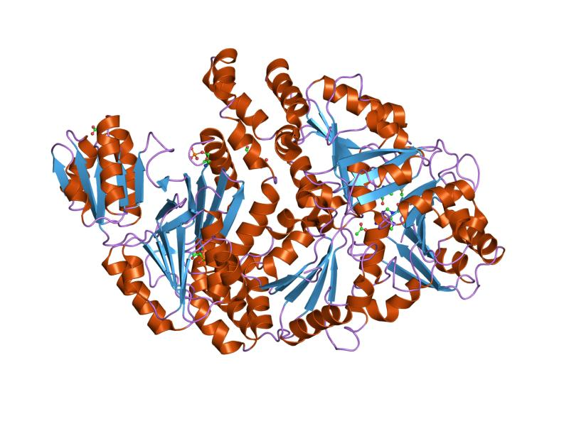 Cartoon representation of the molecular structure of protein registered with 1pjq code.